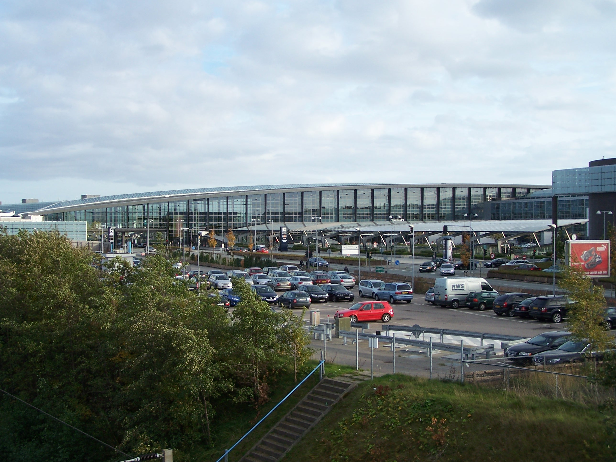 Terminal 3, Copenhagen Airport c 2008, Niels Elgaard Larsen